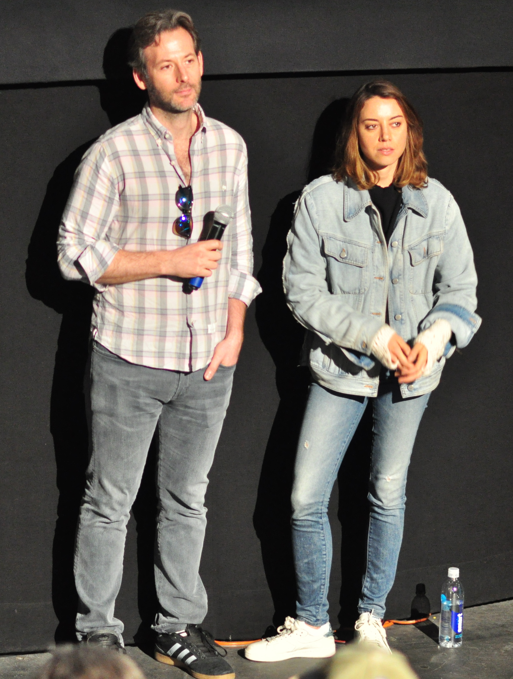 Jeff Baena & Aubrey Plaza attending a showing of The Little Hours at SIFF Cinema Uptown during the Seattle International Film Festival, Seattle, Washington, U.S.